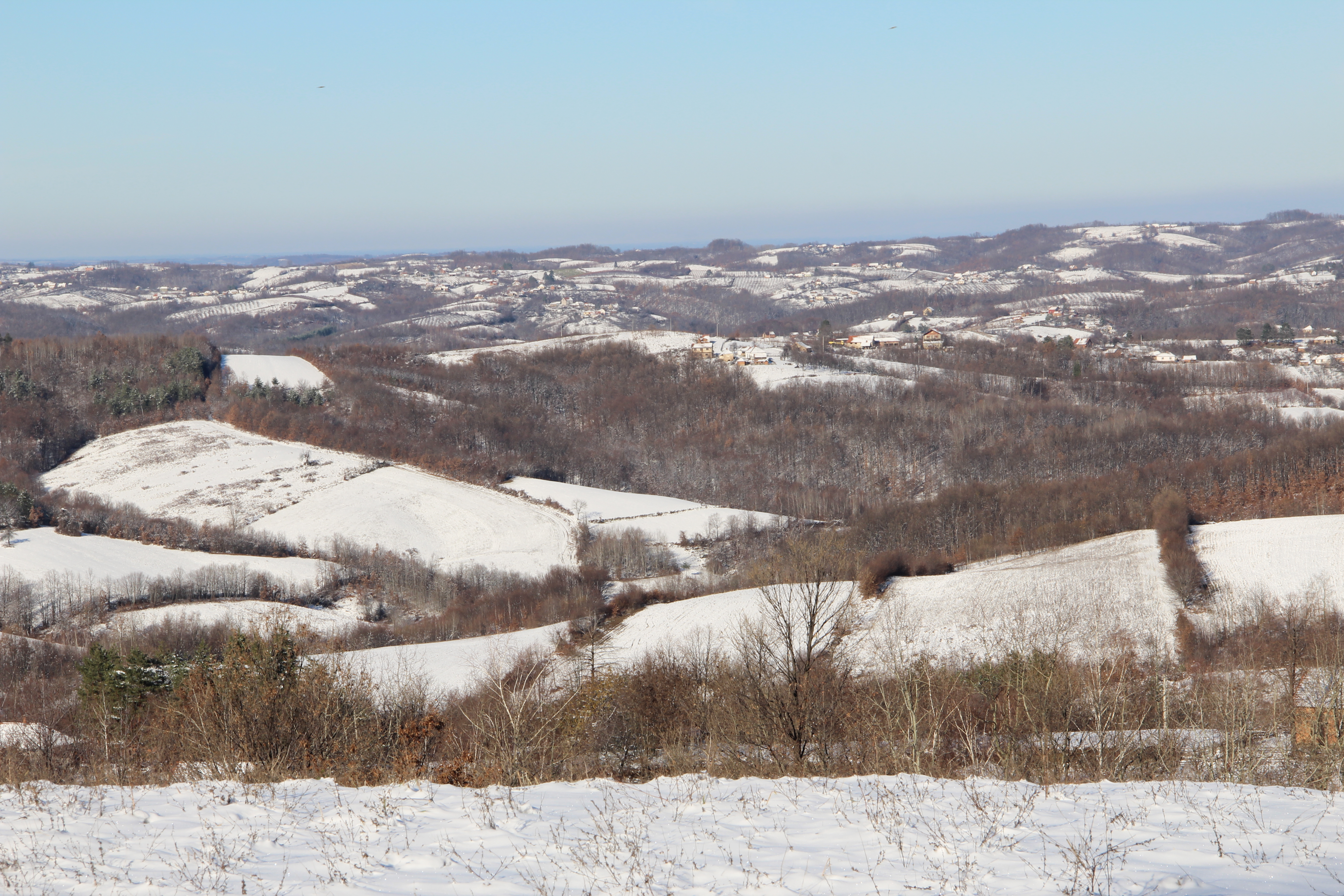 Ogladjenovac village - Municipality of Valjevo - Western Serbia - panorama 13